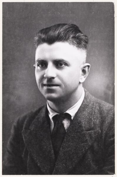 Gerrit Achterberg (1905-1962). Photograph made in 1936, by an unknown photographer. Collection Letterkundig Museum